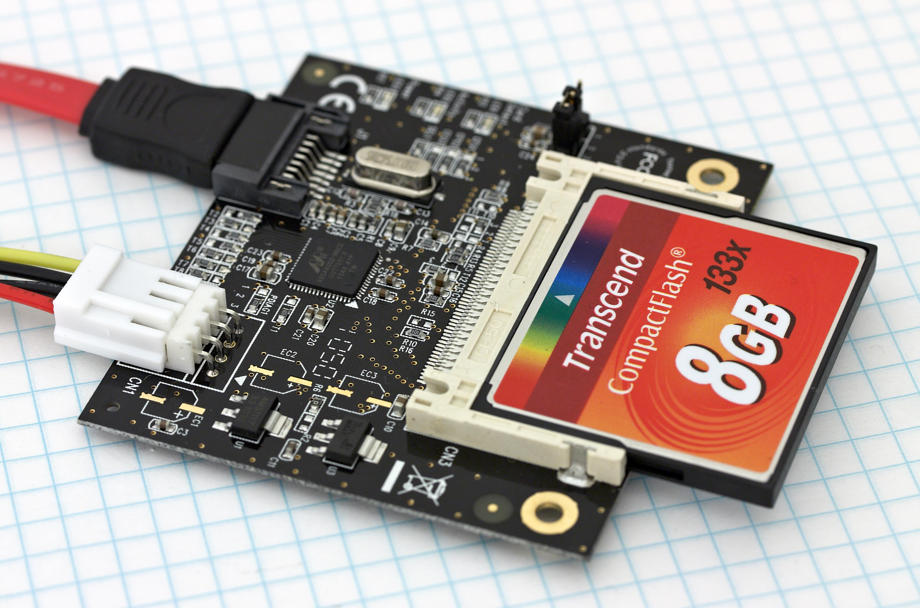 A CompactFlash to Serial ATA adapter for use in a PC, with a 8GB CF card inserted for illustration. This particular adapter supports both 3.3V and 5V cards, selectable via the jumper seen at the top. Uploaded with intent to use in CompactFlash.